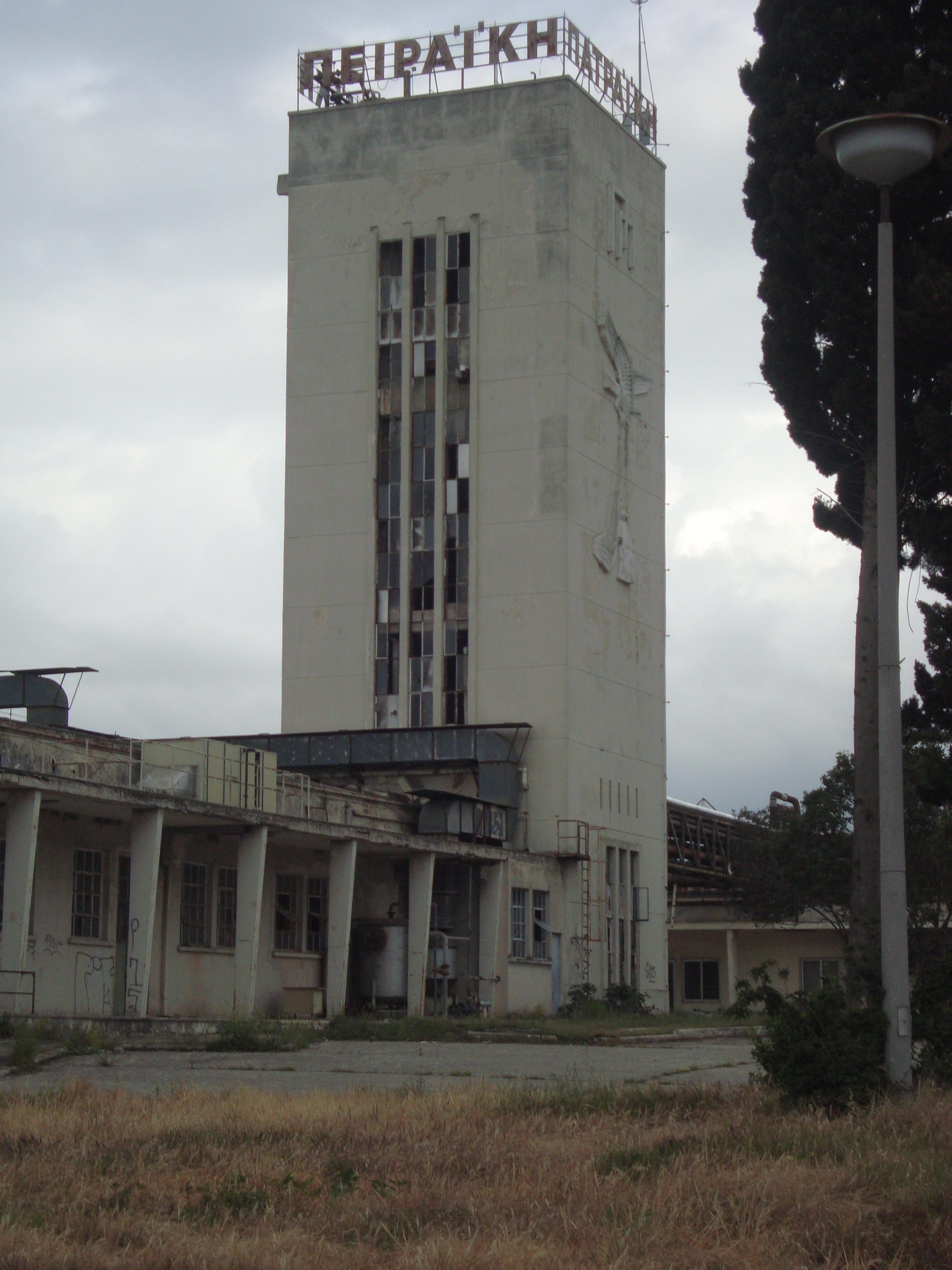 Piraiki Patraiki Textile, Patras